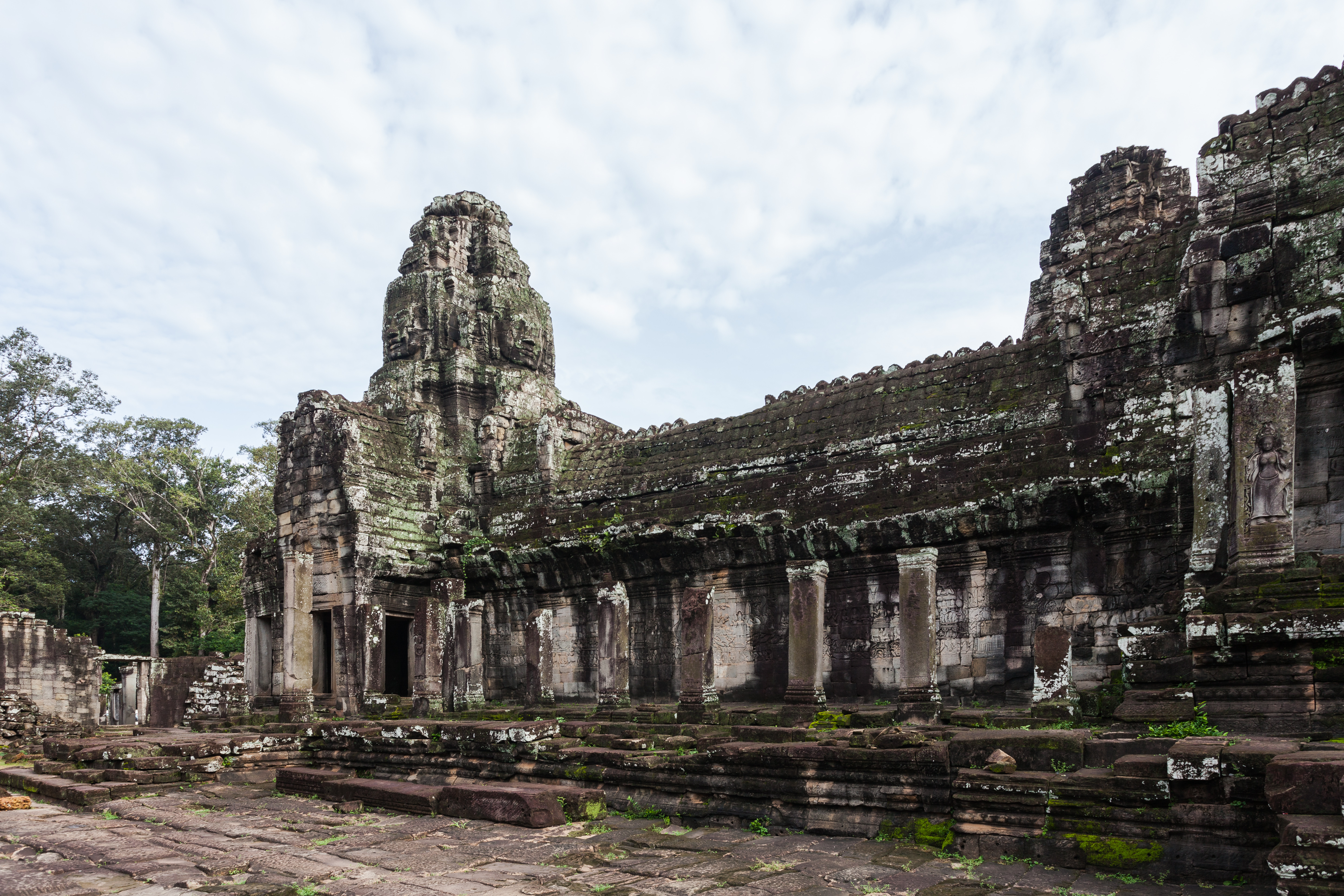 Bayon, Angkor Thom, Cambodia